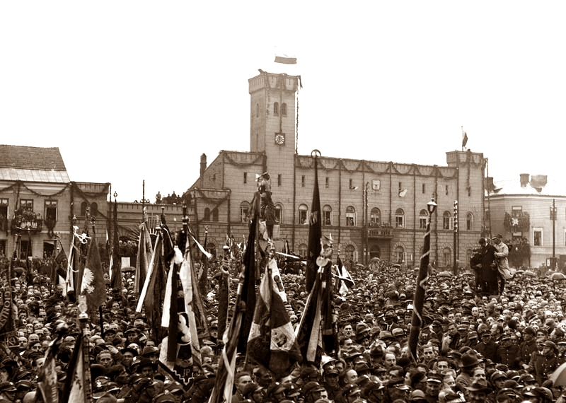 Zjazd legionistów w Radomiu (1930)